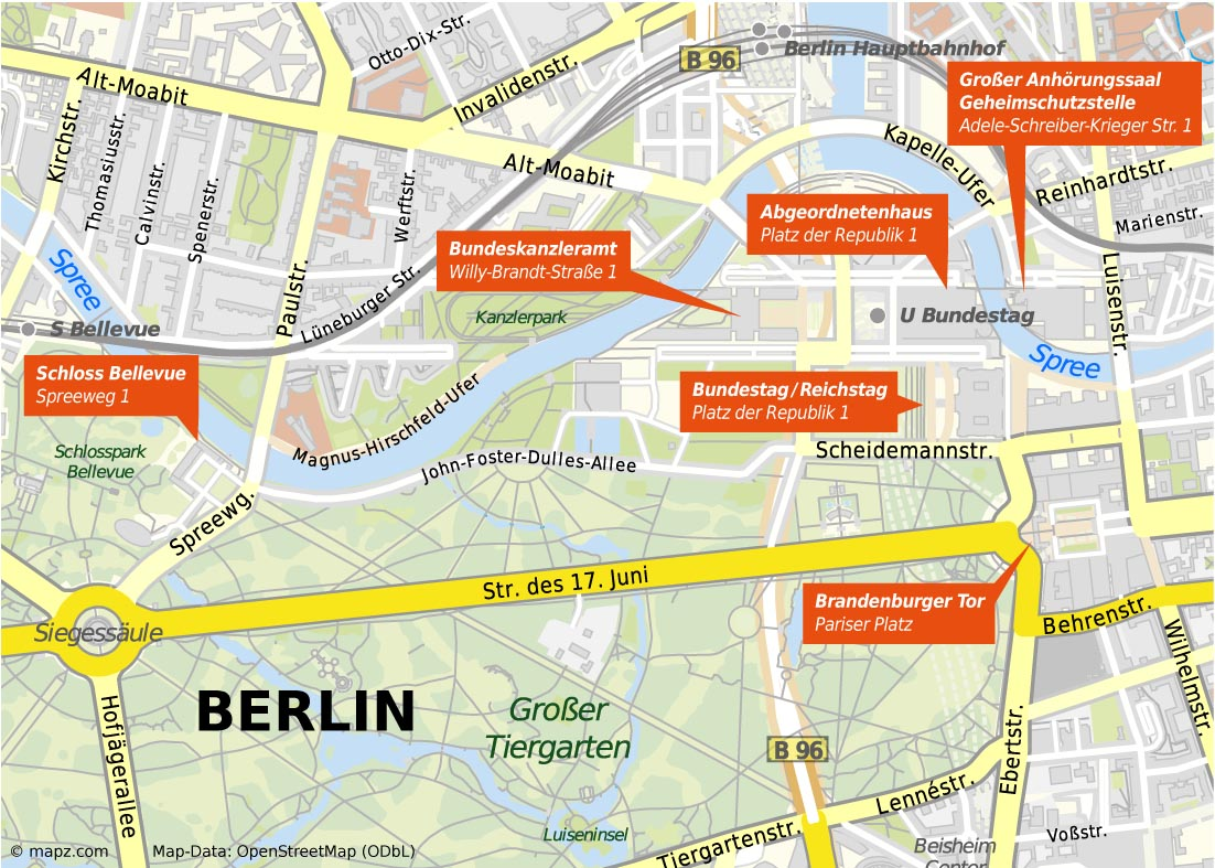 Map of the government district in Berlin.